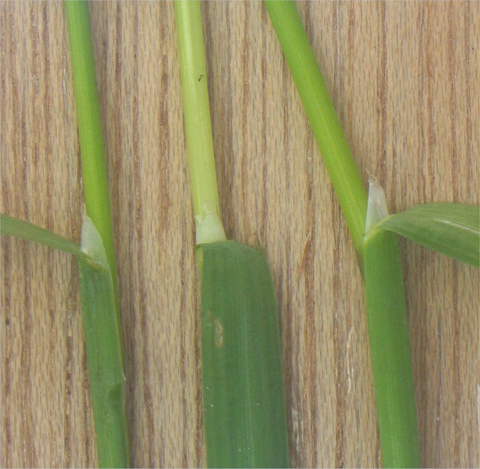 Poa annua ligula